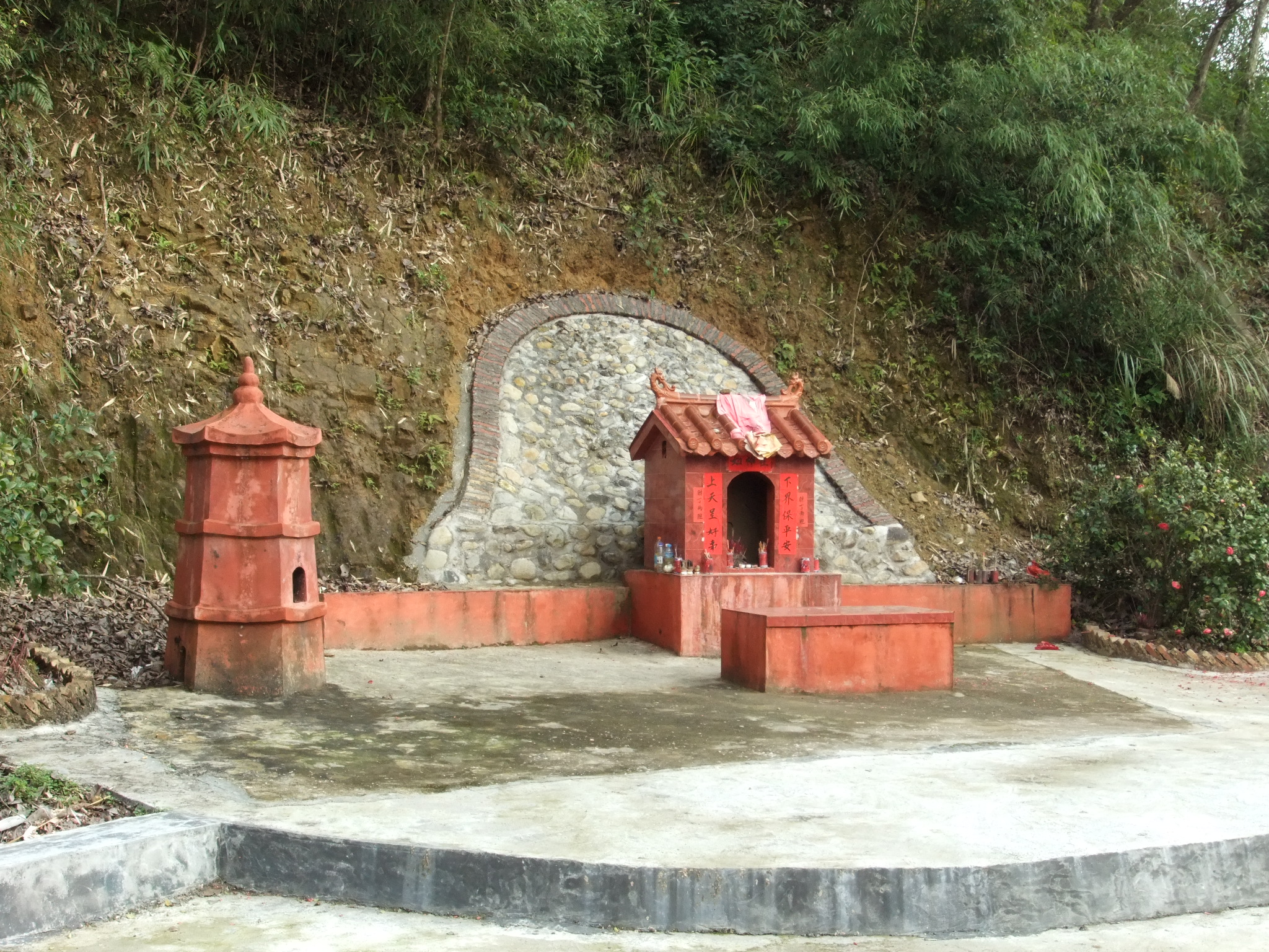 A roadside shrine, with a ritual furnace, off Fujian Hwy 309 (S309), between Qujiang and Gaotou.